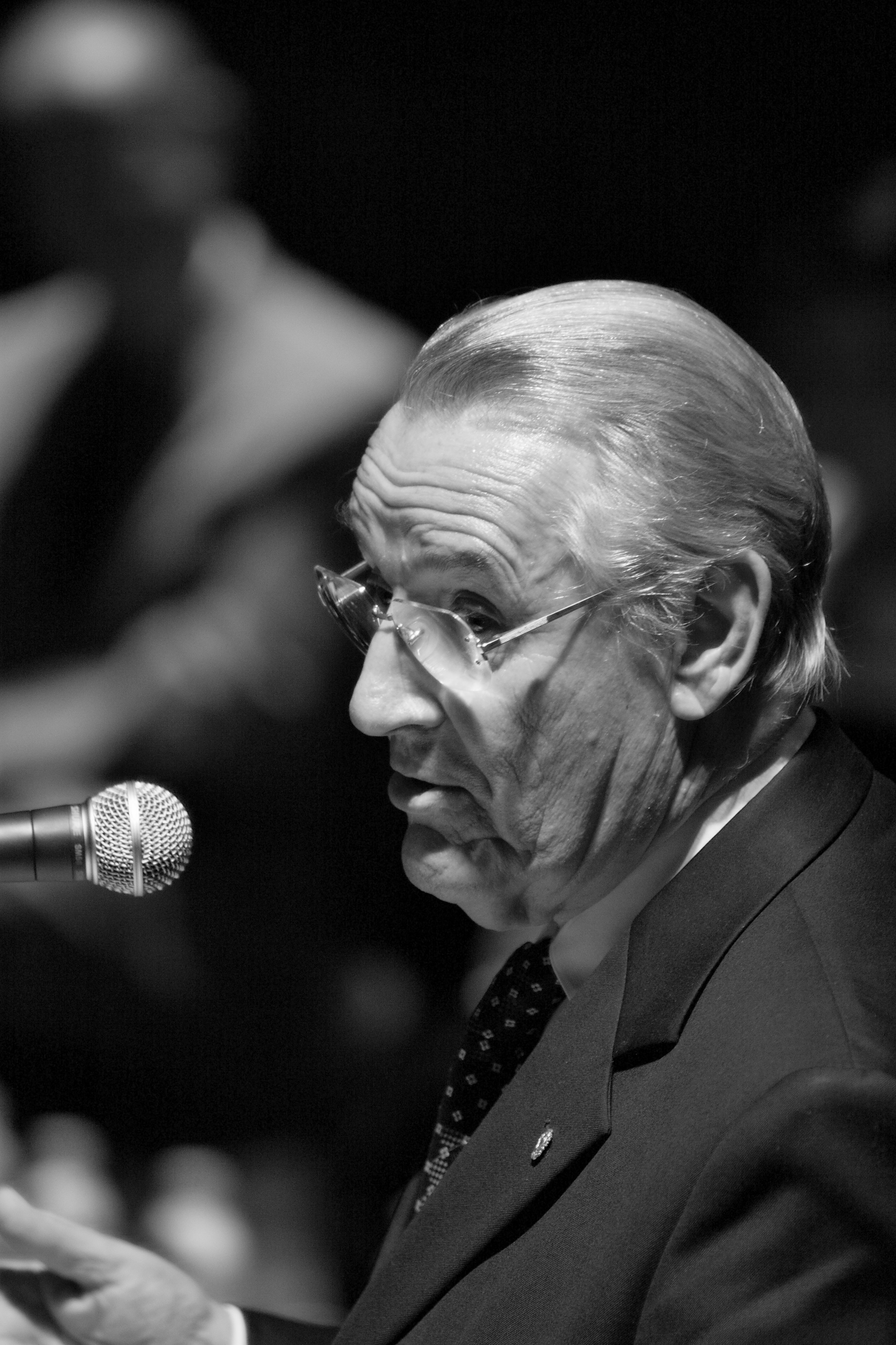 Jacques Peyrat, then mayor of Nice, France, in september 2006 in Nice Opera House, giving a speech during the Légion d'honneur awarding ceremony to Jacqueline Marro, president of the Nice bar association.